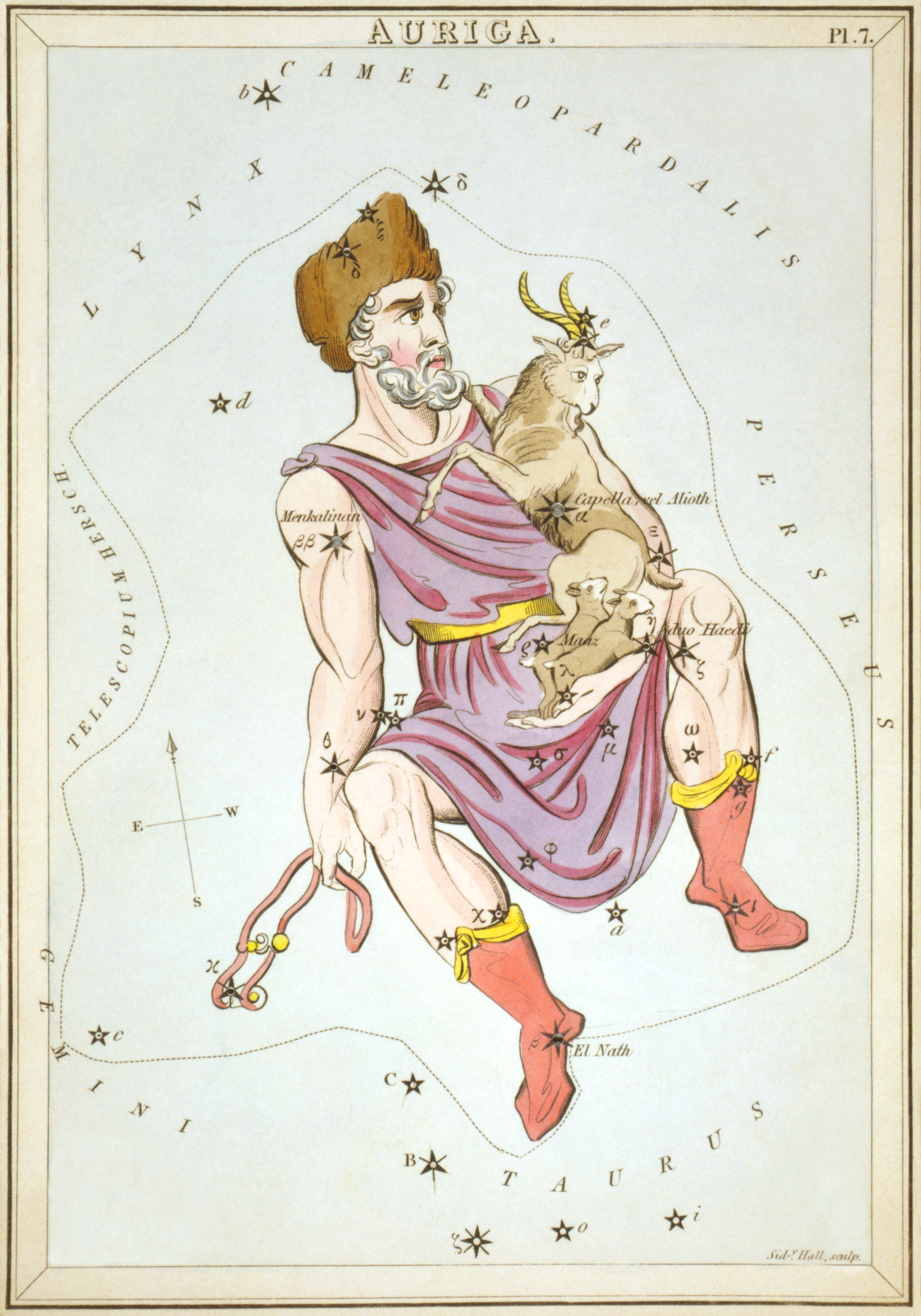 Auriga, plate 7 in Urania's Mirror, a set of celestial cards accompanied by A familiar treatise on astronomy ... by Jehoshaphat Aspin. London. Astronomical chart, 1 print on layered paper board : etching, hand-colored.